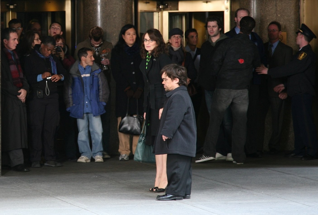 Tina Fey and Peter Dinklage shooting a scene for the episode "Señor Macho Solo"